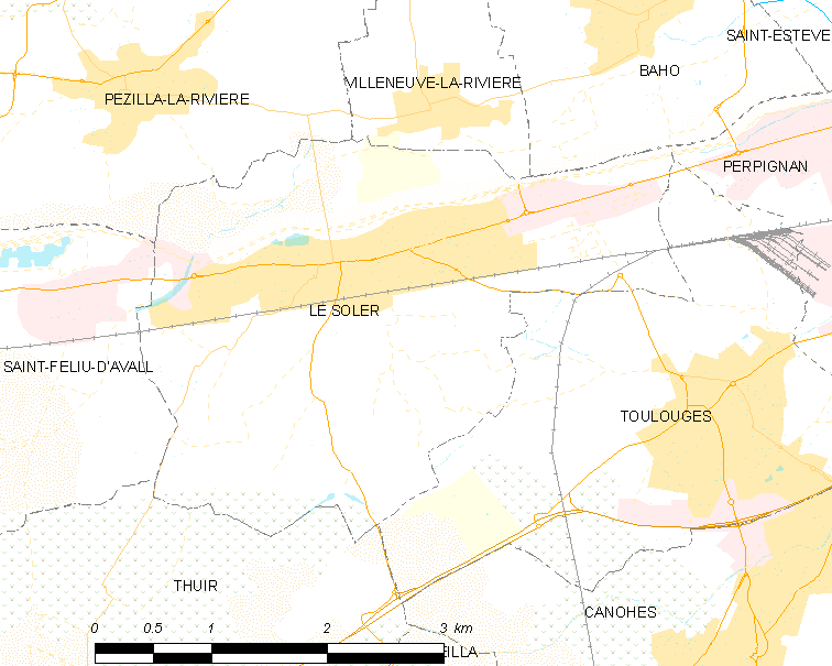 Map of French municipality